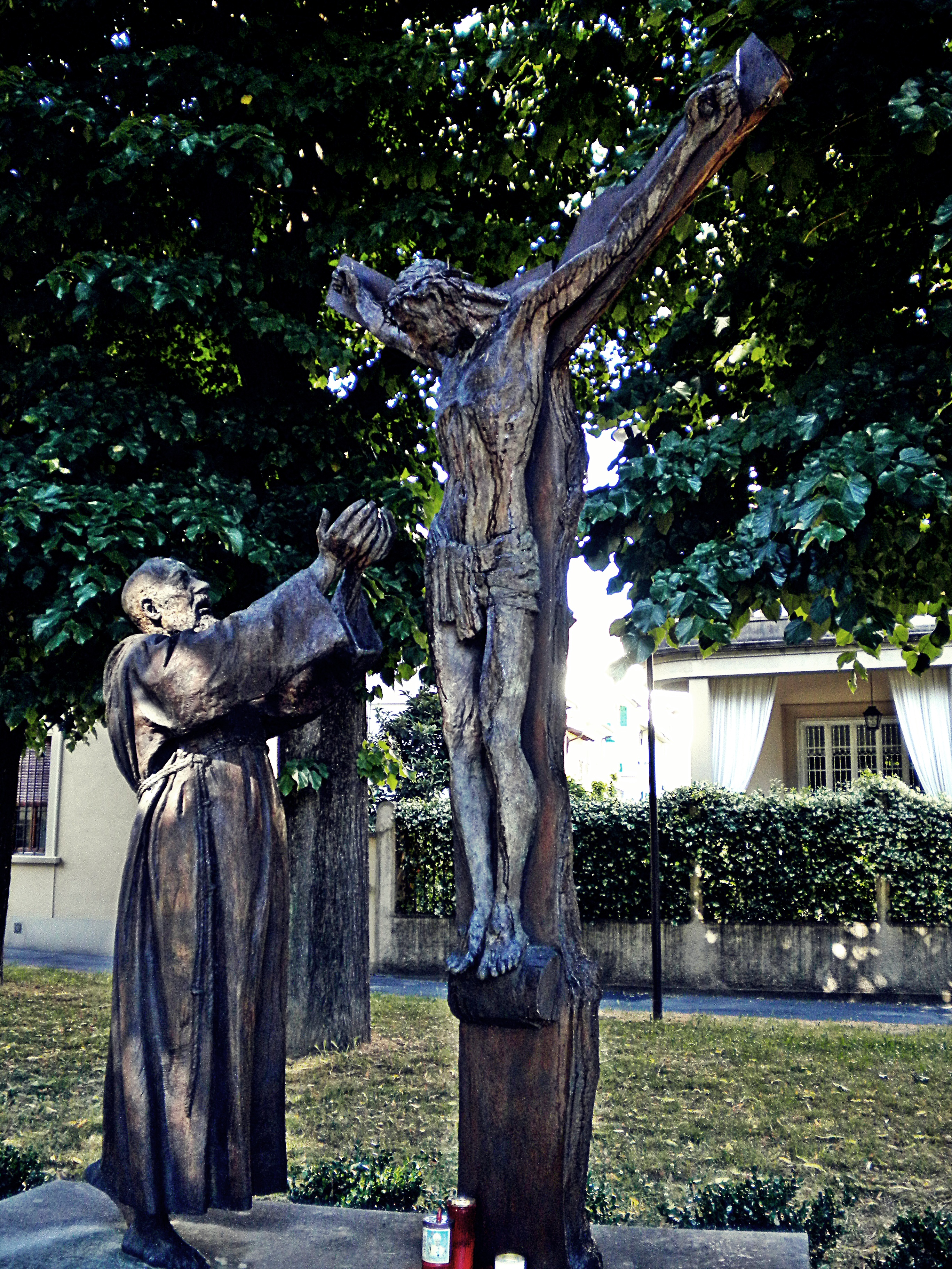 padre pio